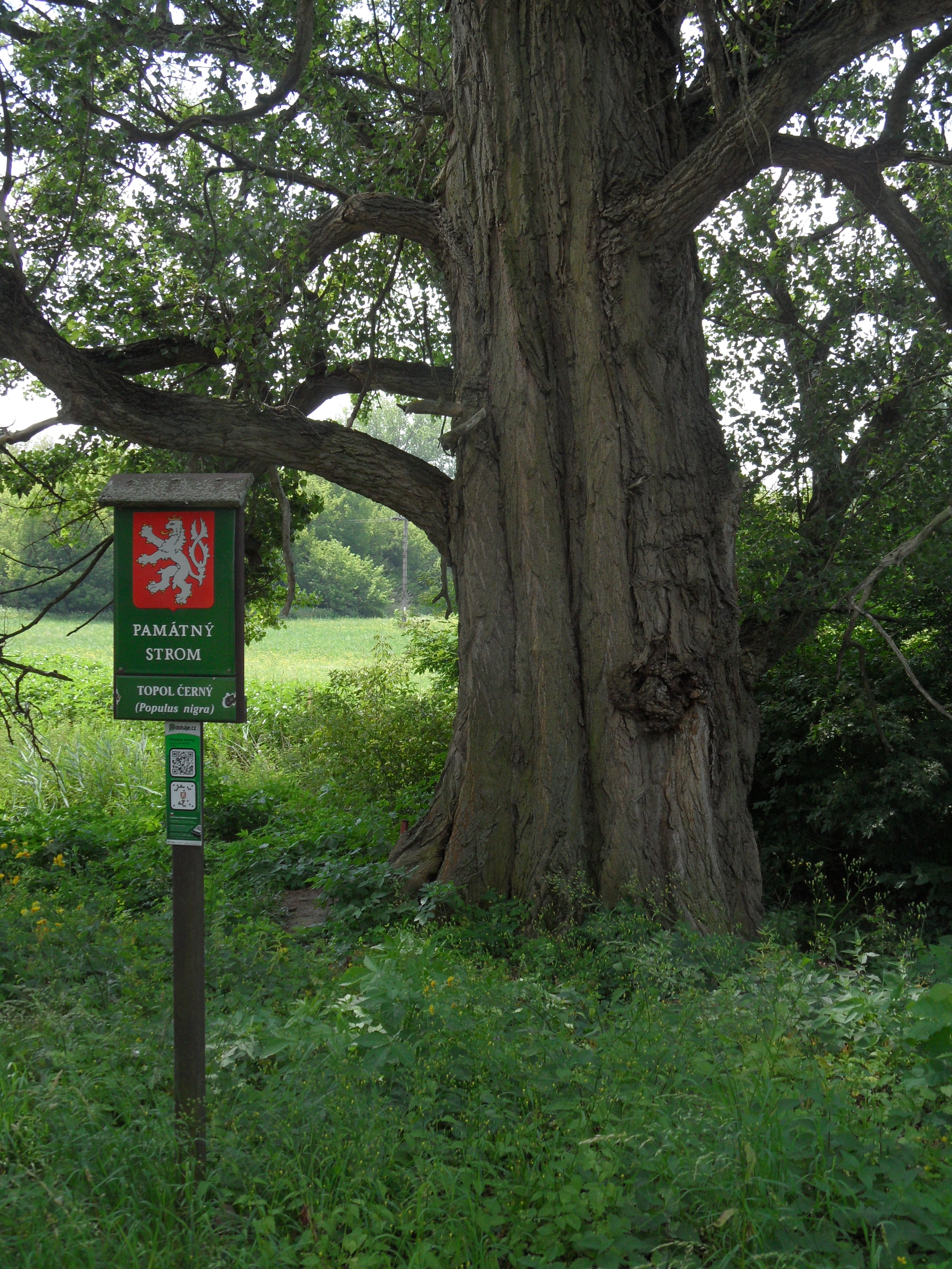 Benátecká Vrutice: Famous tree Populus nigra, South of Armádní Street, on the Edge between Benátecké Vrutice and Milovice. Nymburk District, the Czech Republic.